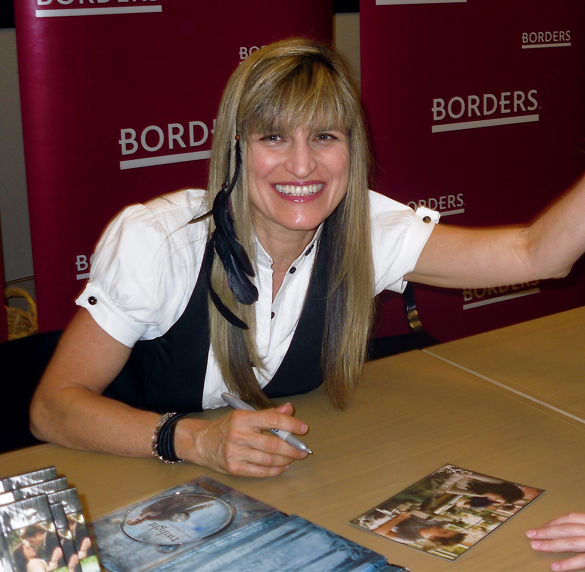 Catherine Hardwicke & Madison @ Borders Books in Allen, TX for Twilight DVD Premiere